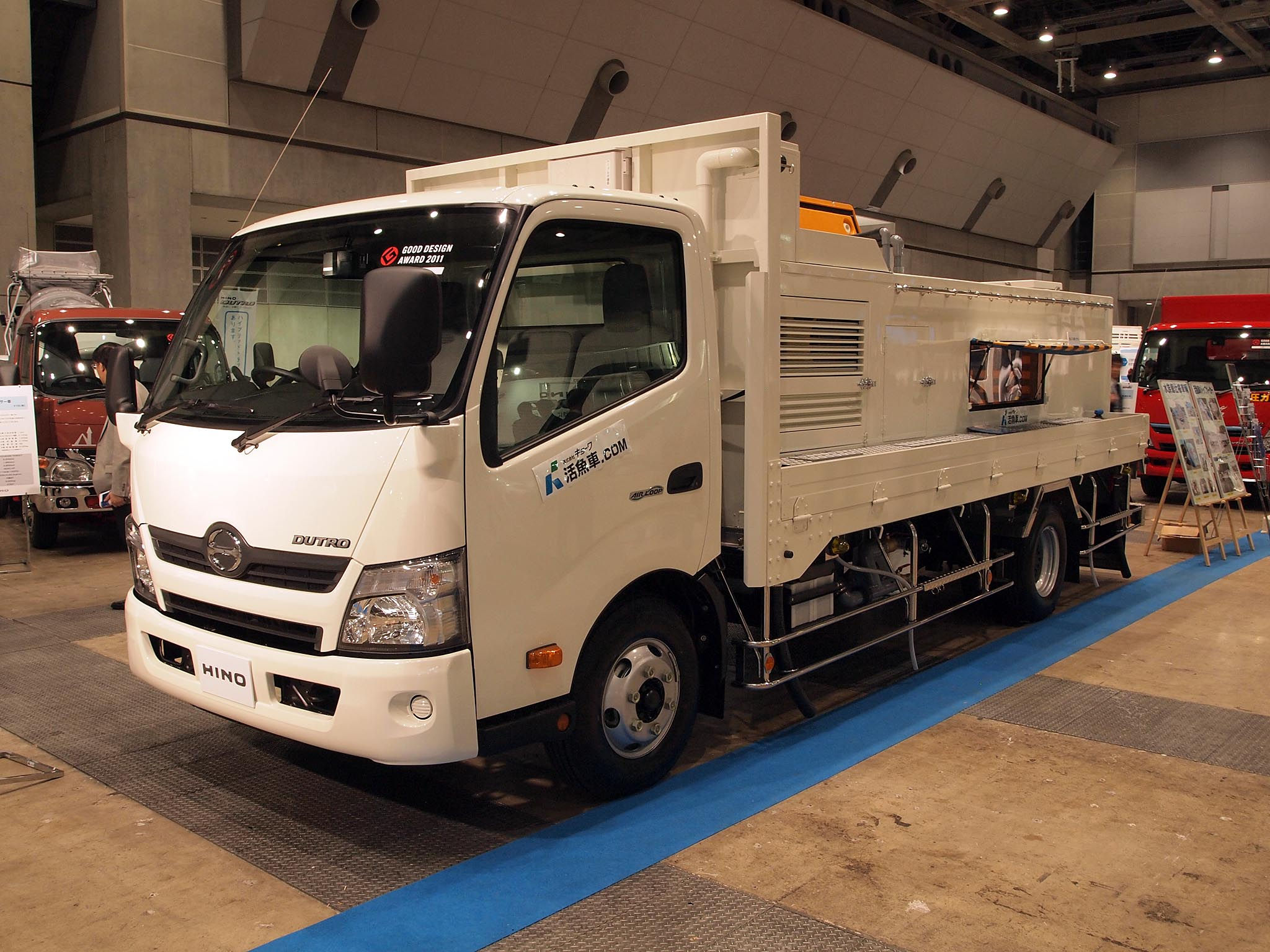 Hino Dutro 2nd generation with live fish transporter. Shown at Tokyo Truck Show 2011.